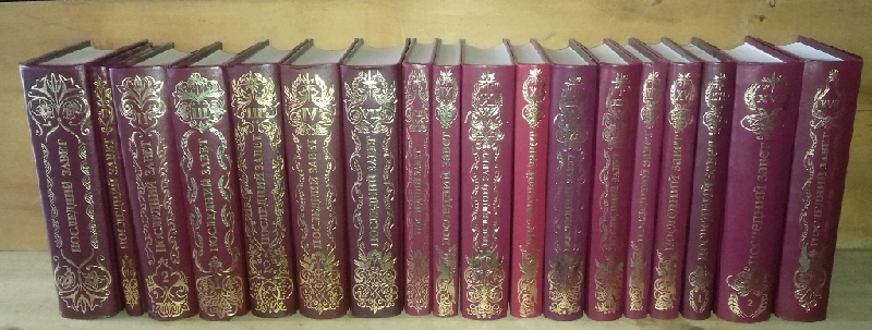 All volumes of The Last Testament (as of January 2019)